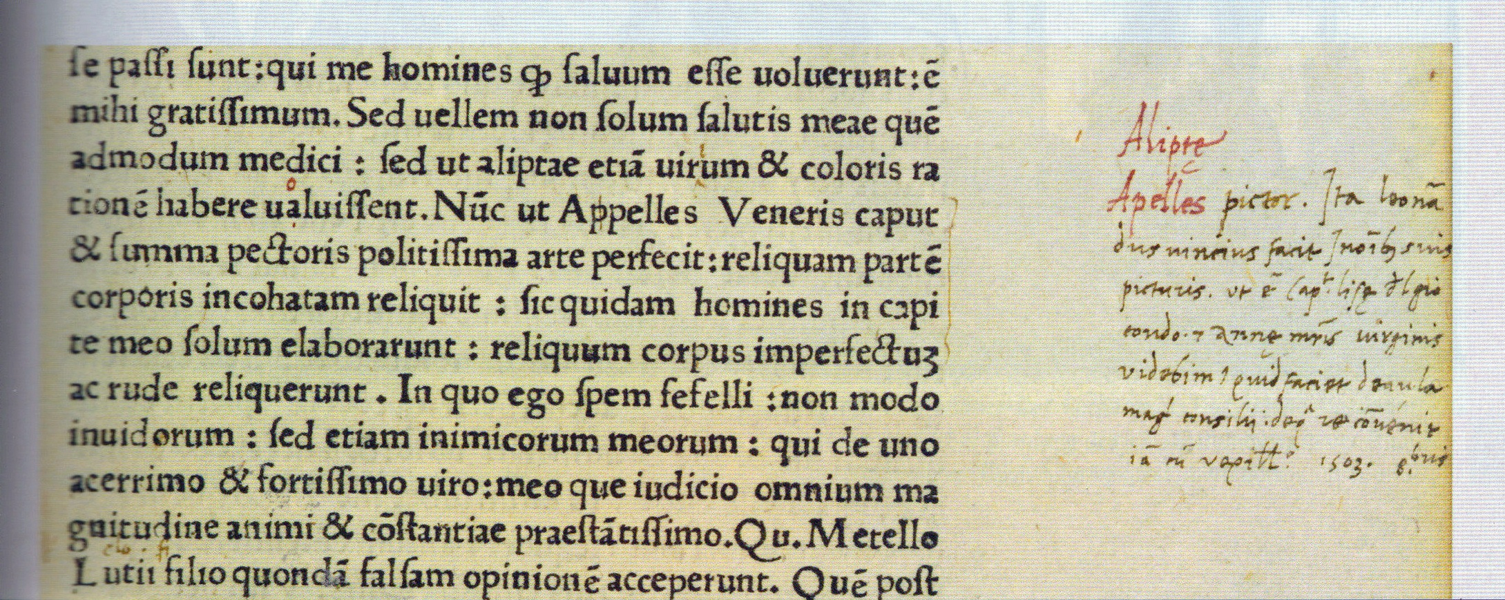 University library Heidelberg D. 7620 qt. Inc., notice on the "Mona Lisa" of Leonardo